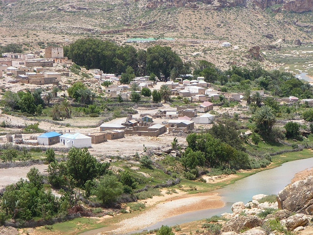 Overview of Eyl town in Puntland, Somalia.